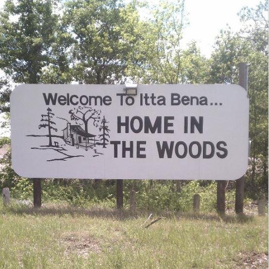 Sign depicting the name of the locale in Mississippi